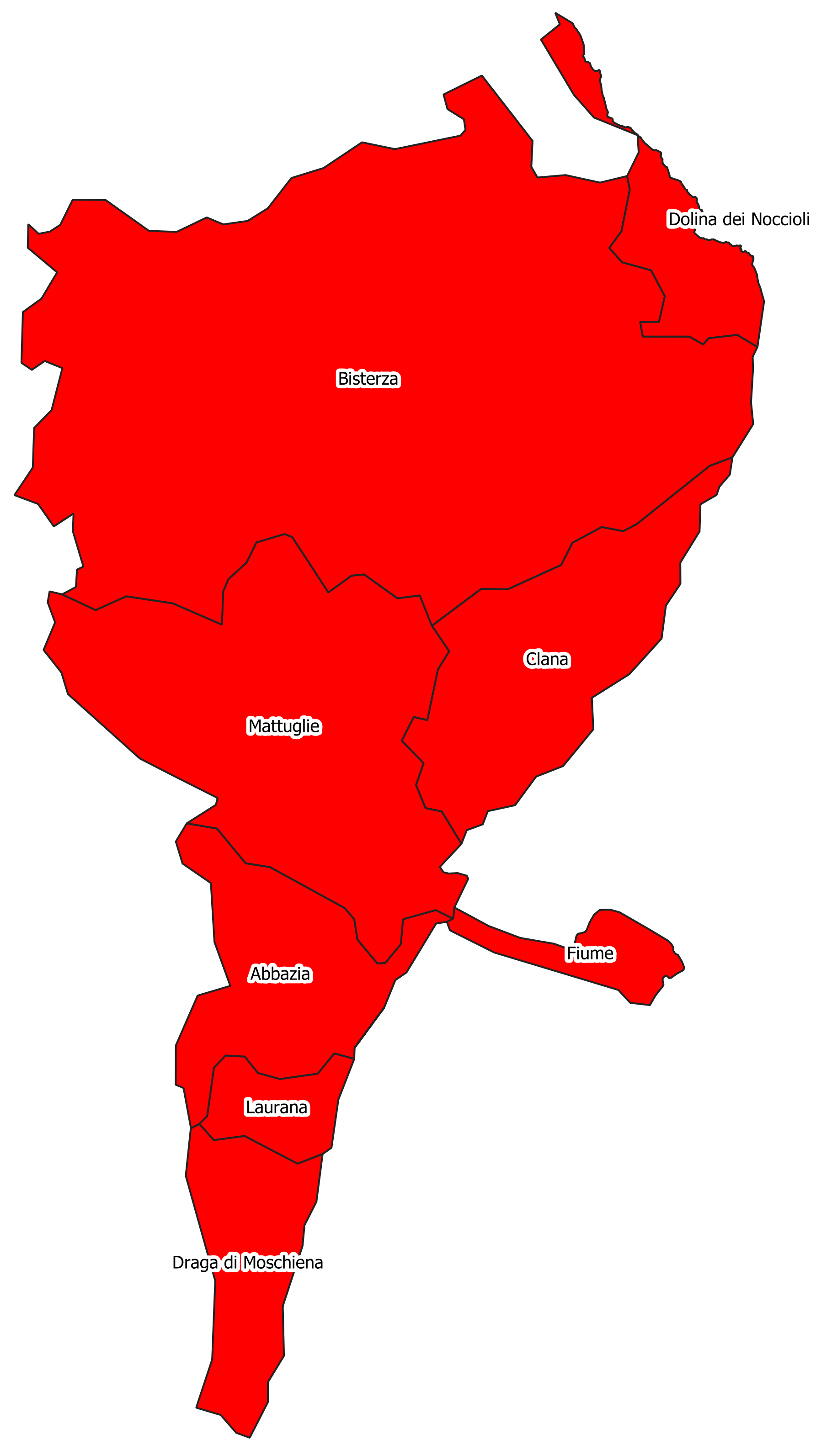 Province of Fiume in 1924, depicted borders don't match the current ones because have been used current administrative borders